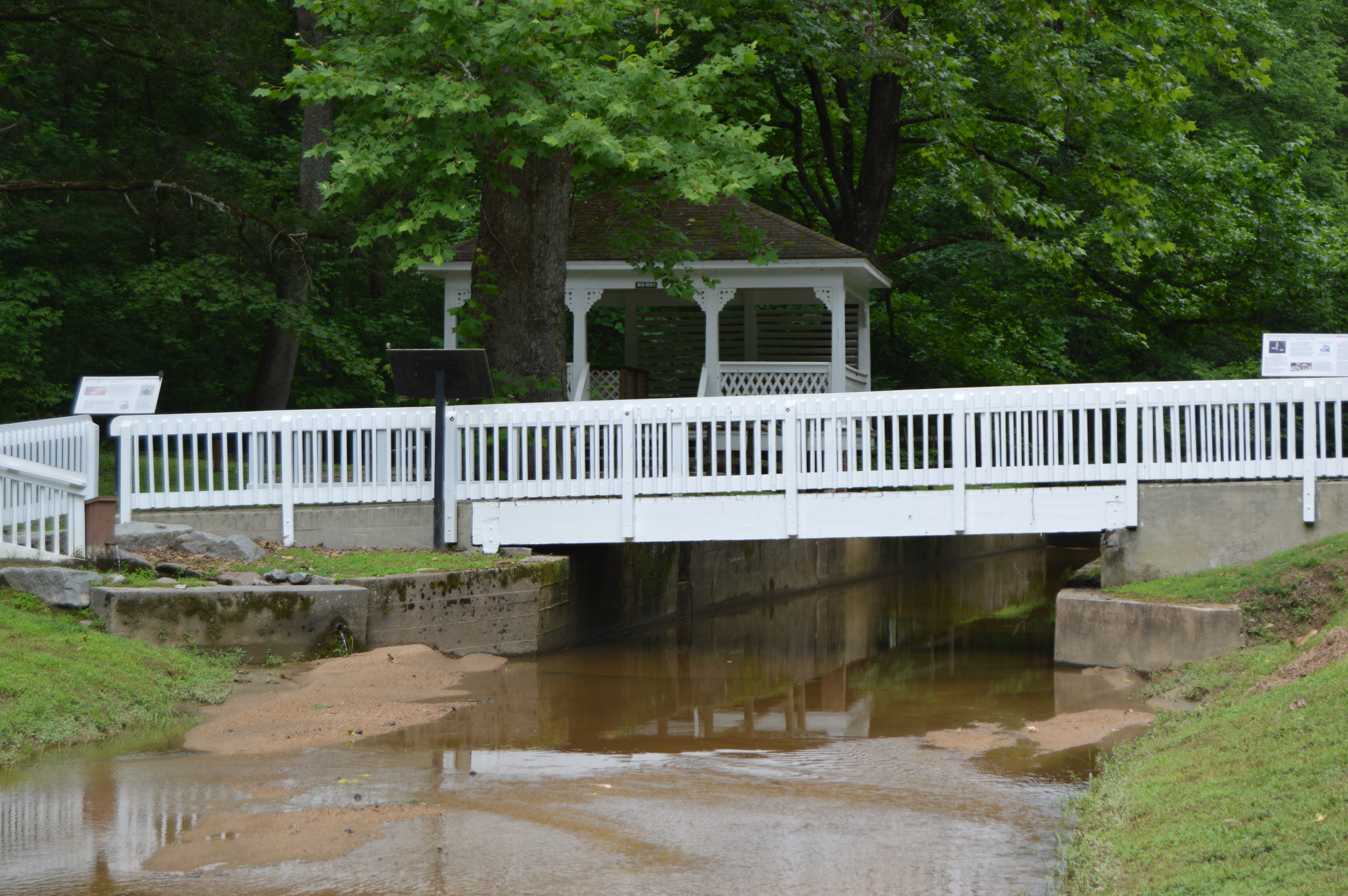 A bridge and gazebo along the Flat Rock Branch at Buffalo Springs, located just off U.S. Route 58 between Clarksville and South Boston in Mecklenburg County, Virginia, United States. Once a major lithia springs resort, the Buffalo Springs Historic District is now listed on the National Register of Historic Places as an archaeological site.